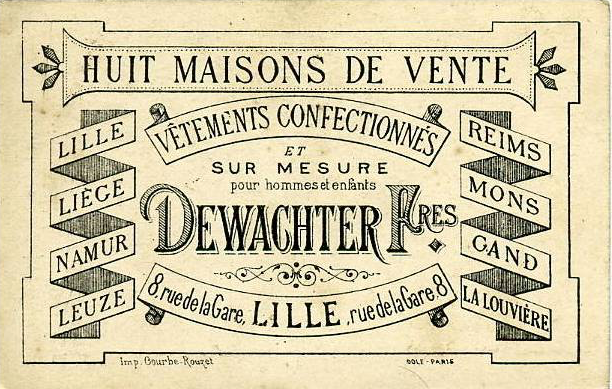 Post card advertisement for Dewachter Freres department stores in Belgium and France. It says "Eight Locations Ready Made Clothes and By Measure for men and children." It dates from no later than 1885, as the chain opened its location in Bordeaux, France in 1886.